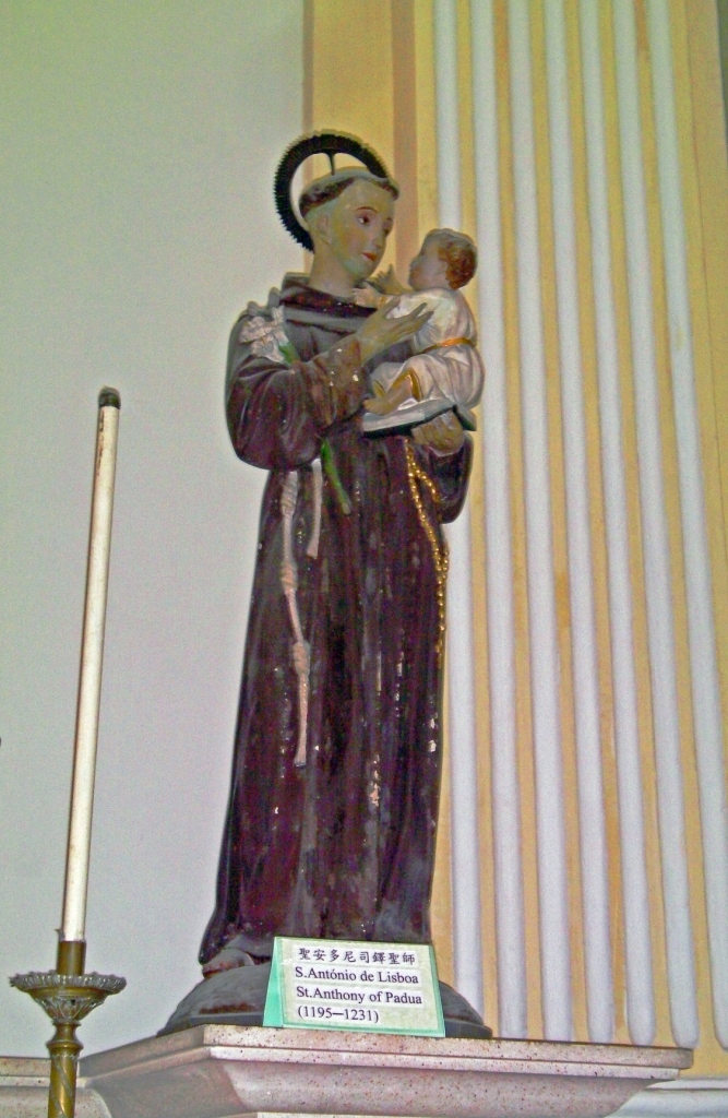 SANYO DIGITAL CAMERA